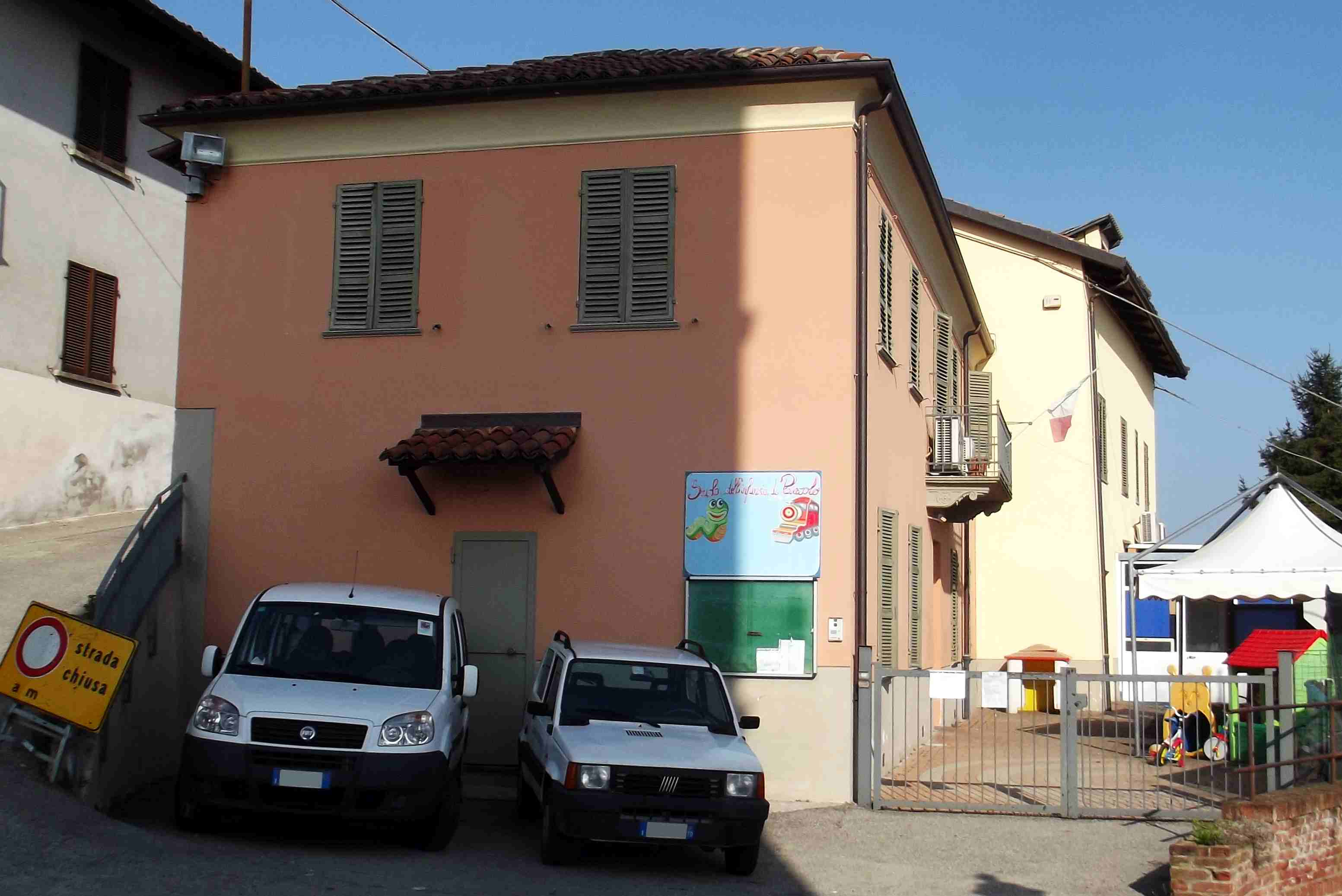 Pavarolo (TO, Italy): town hall